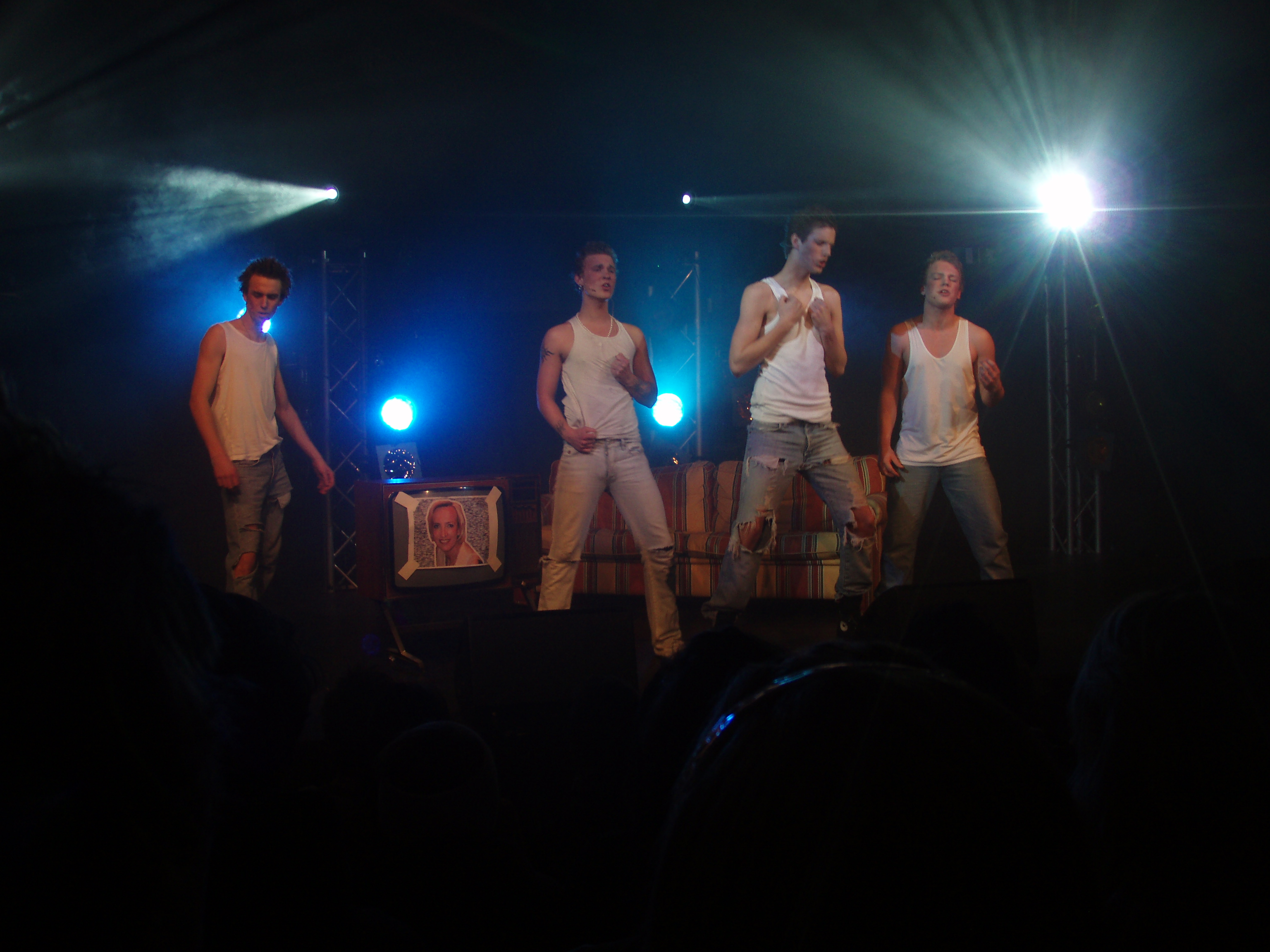 Grefsen school performance 2007